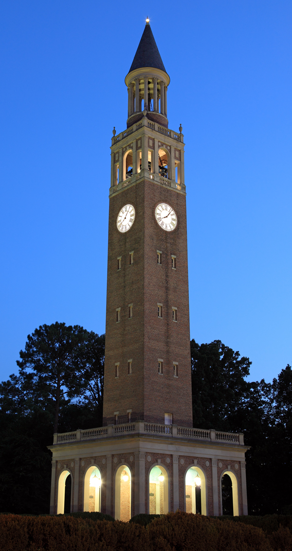 The Morehead-Patterson Bell Tower at UNC